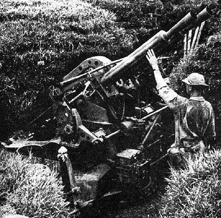 Type Bi 40mm AA Gun